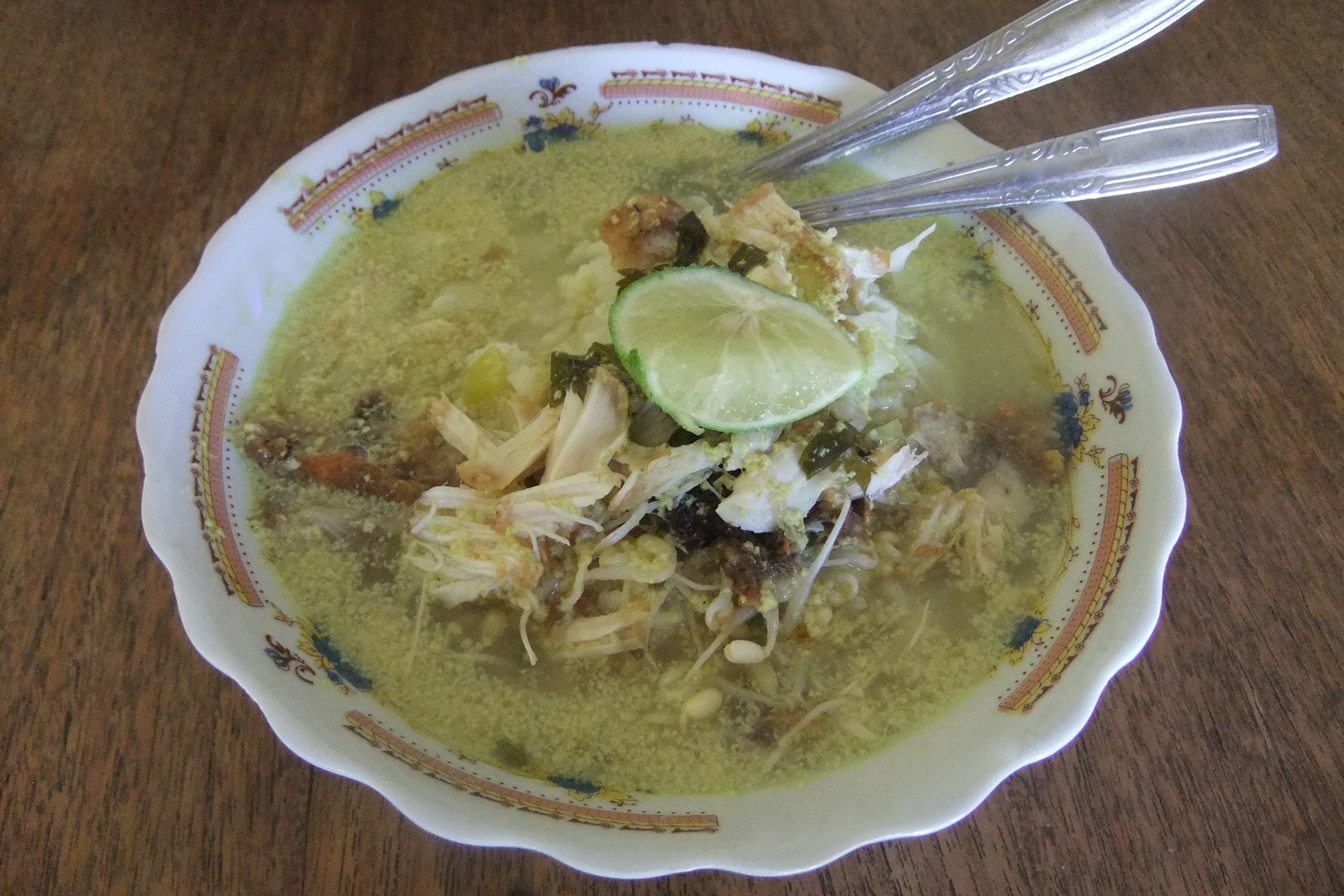 Soto Kediri from Kediri, East Java, Indonesia. Soto Ayam with coconut milk